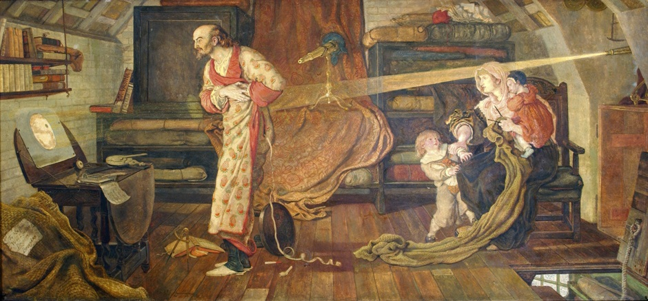 Cut version of file BrownManchesterMuralCrabtree.jpg